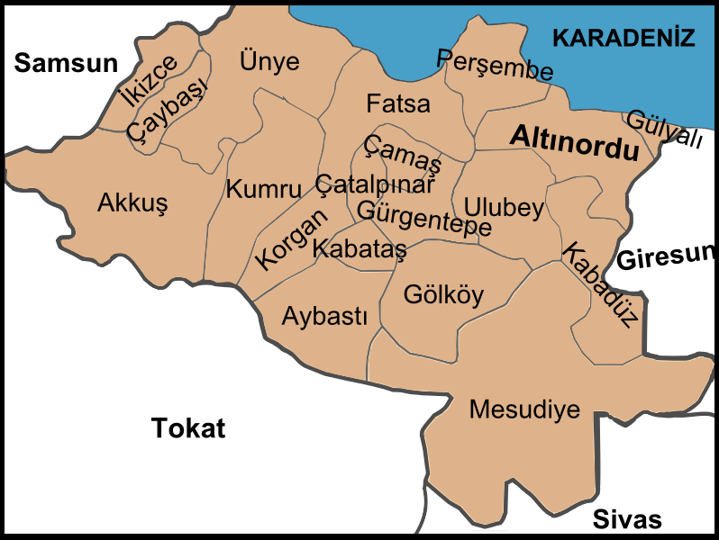 Districts of the Ordu Province, Turkey as of the year 2014. Note: Ordu became a Metropolitan Municipality with Turkish administrative law in 2013 after it is accepted in the Turkish Grand National Assembly and "(Merkez) Ordu", "(Central) Ordu" district renamed to "Altınordu" District and besides the new Altınordu District, districts of Fatsa and Ünye have been declared as the administrative borders of the new Ordu Metropolitan Municipality.